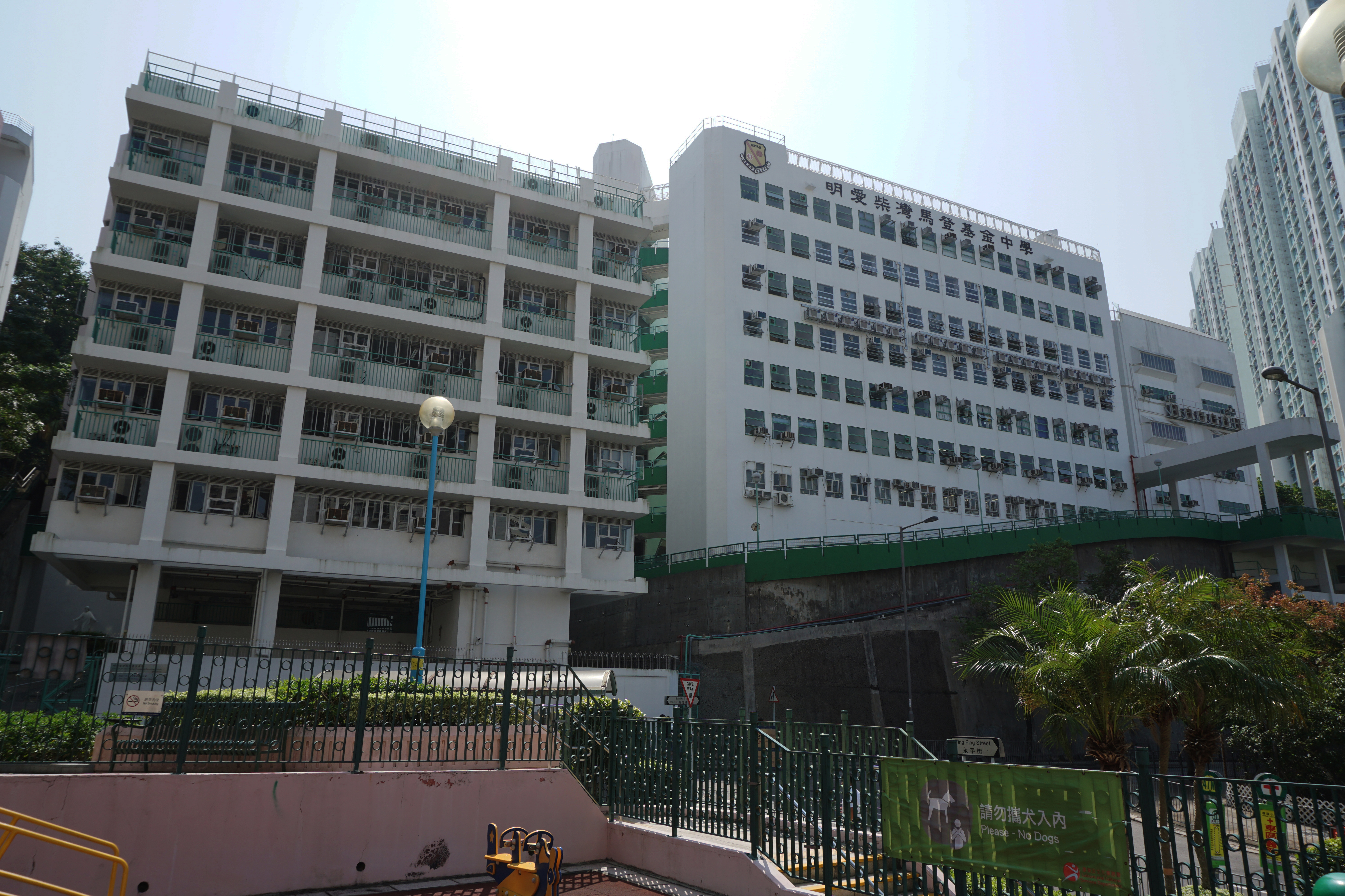 Caritas Chai Wan Marden Foundation Secondary School in Chai Wan, Hong Kong.